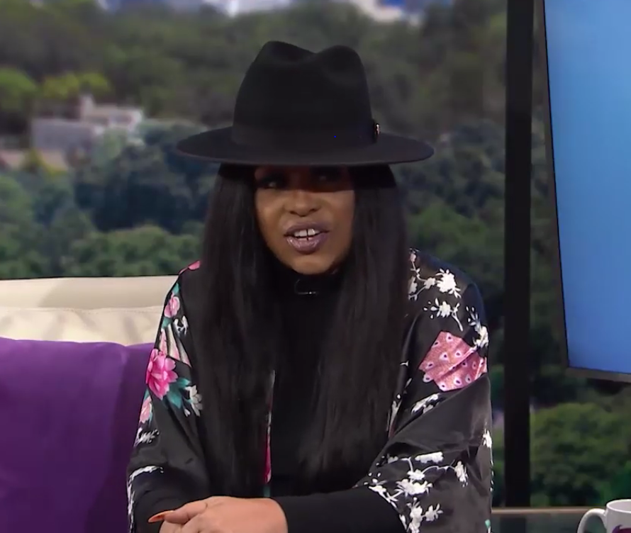 Miki Howard speaking on the talk show Sister Circle